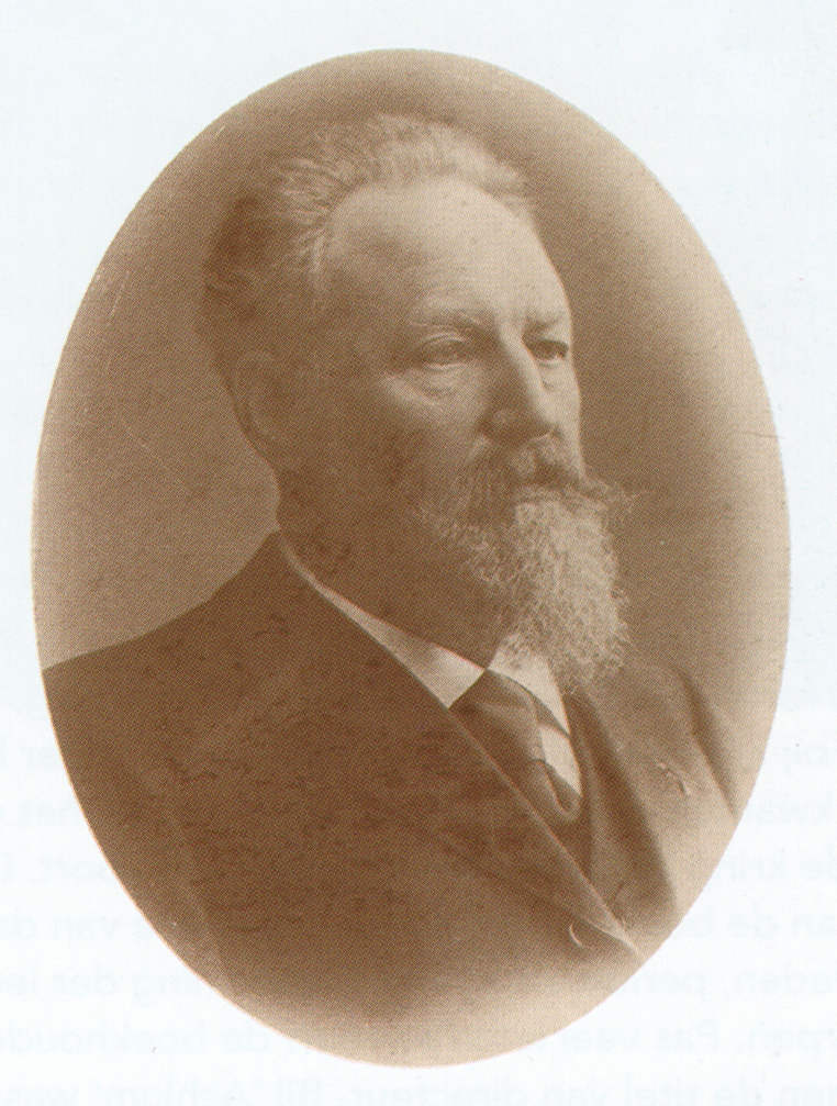 Arjen Draisma de Vries (1843-1936), mayor of Franekeradeel